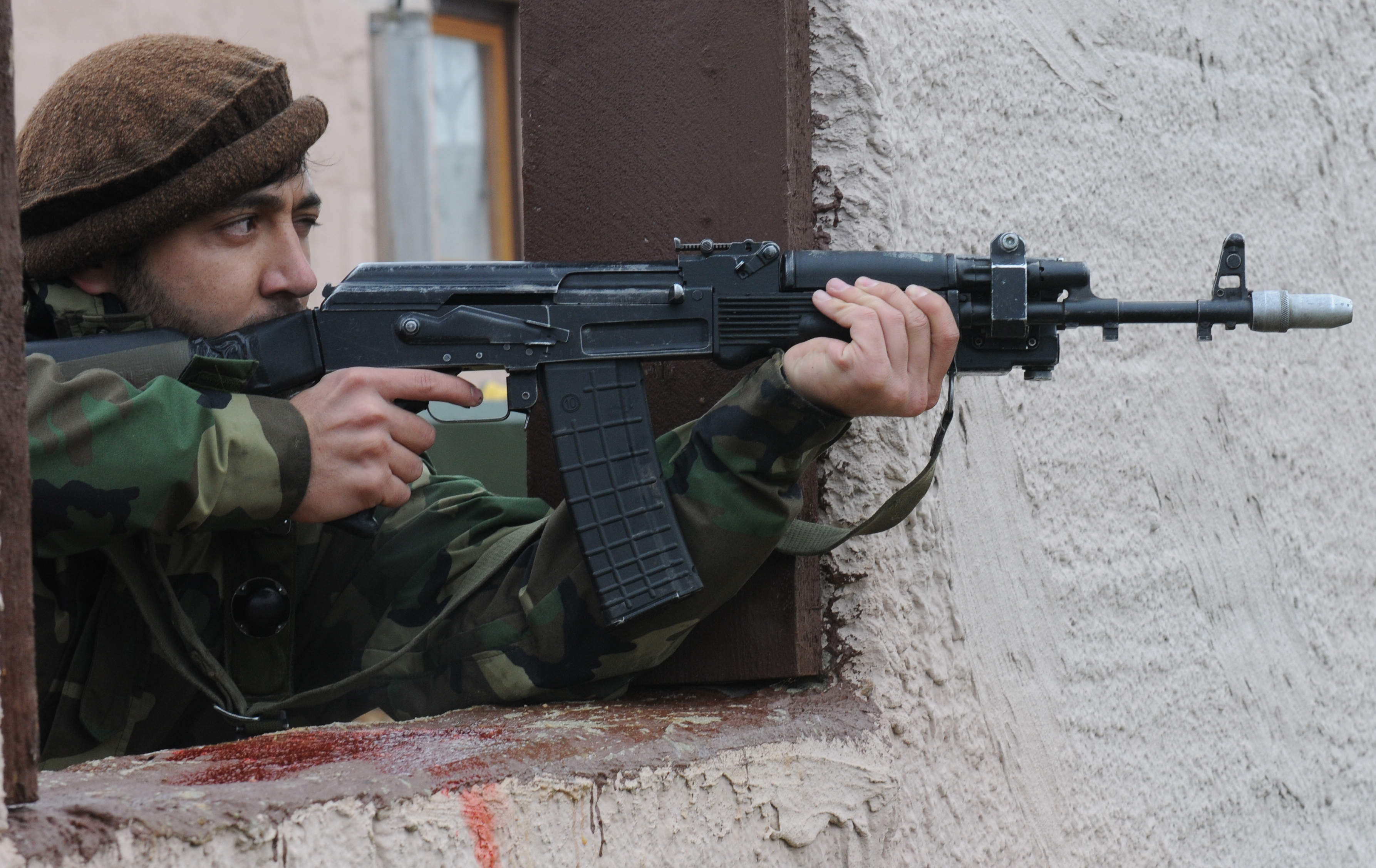 HOHENFELS, Germany – An Afghan uniform police engages an insurgent after being fired upon during an investigation here 18 Nov. The POMLT, the first of its kind here, was designed to instruct Afghan police forces in civilian law enforcement techniques, and to train NATO forces in methods of teaching those techniques. (U.S. Army Europe photo by Sgt. Joel Salgado)